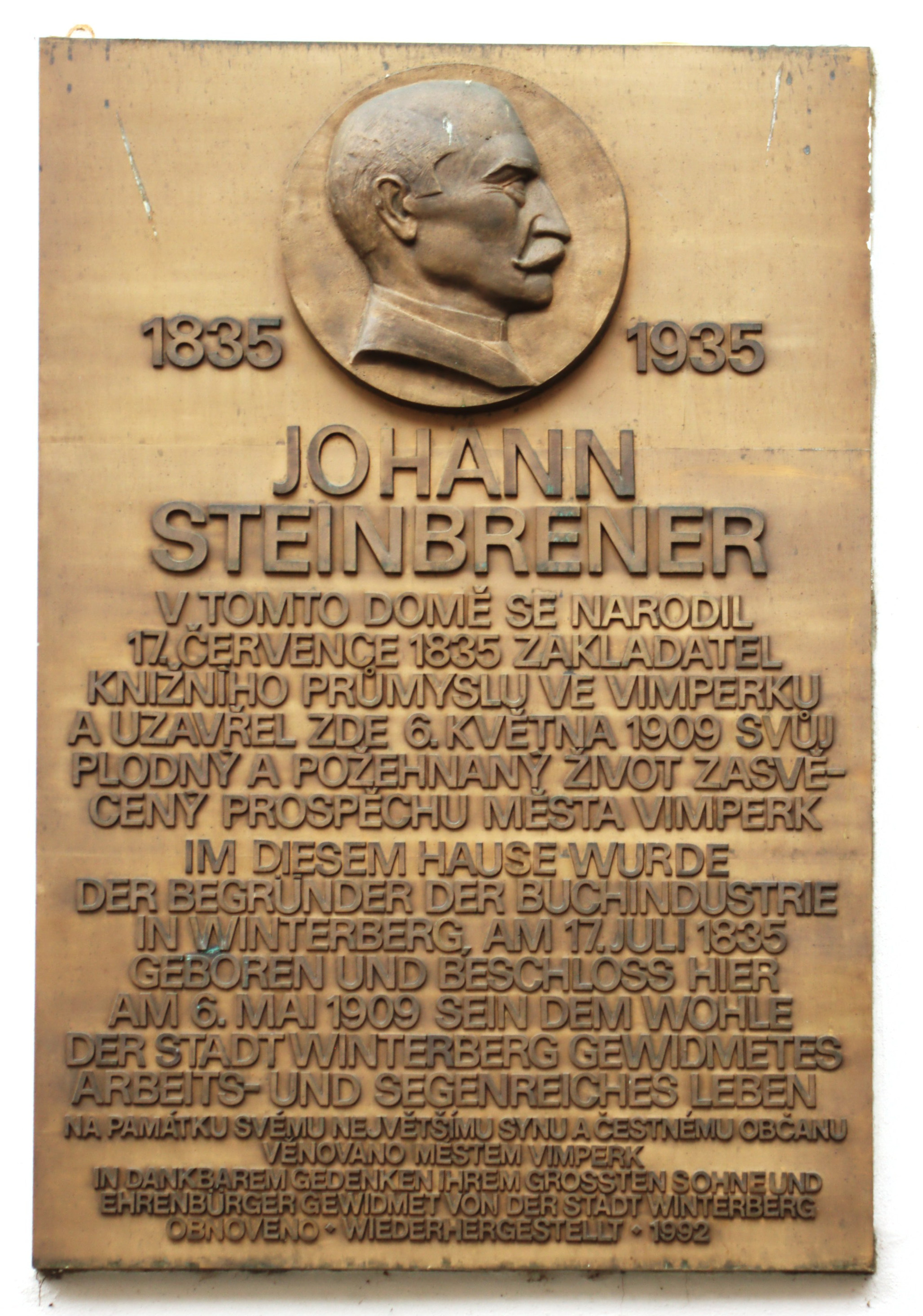 Johann Steienbrener plaque in Vimperk